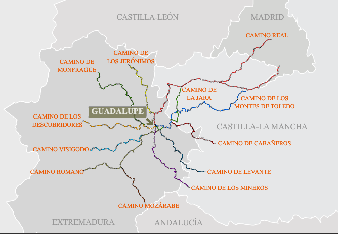 The 12 historical ways to Guadalupe